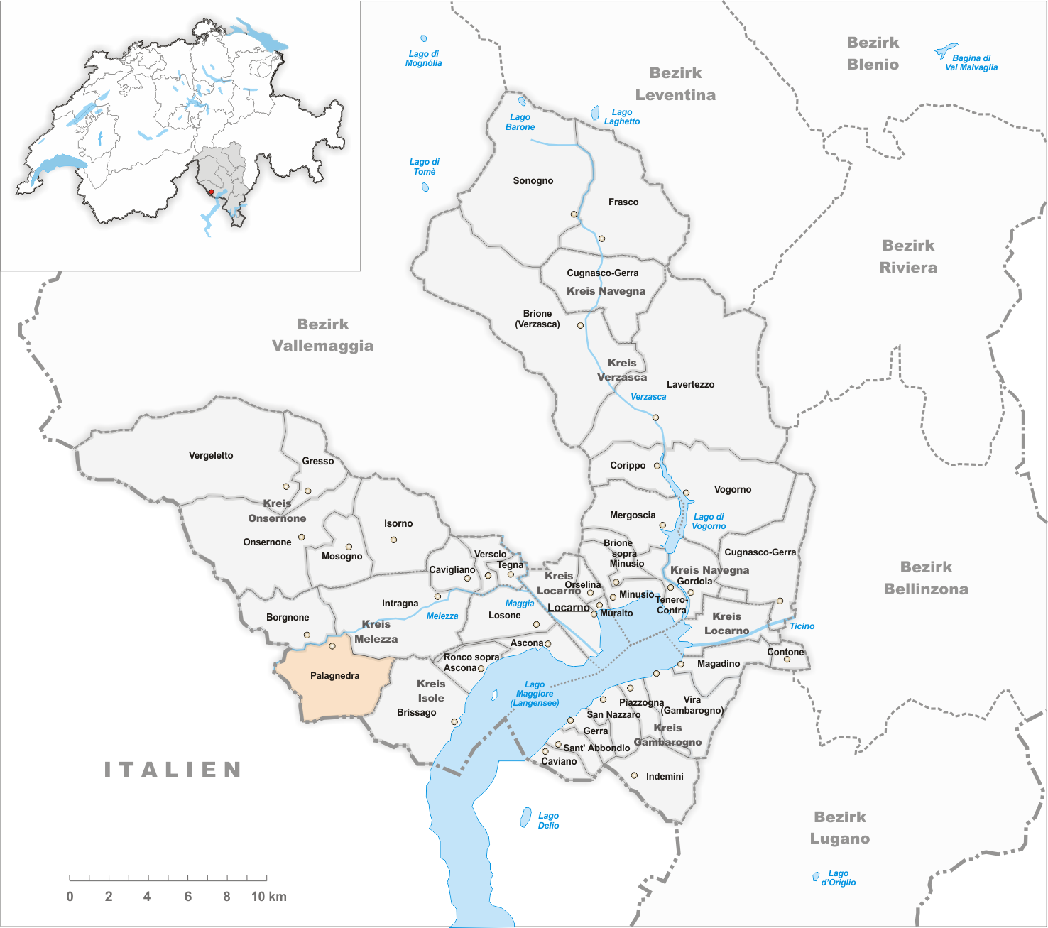 Municipality Palagnedra